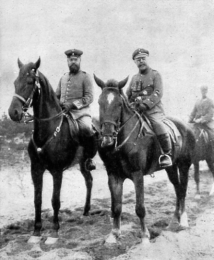 Walther Nernst, director of the chemical institute of the University of Berlin.